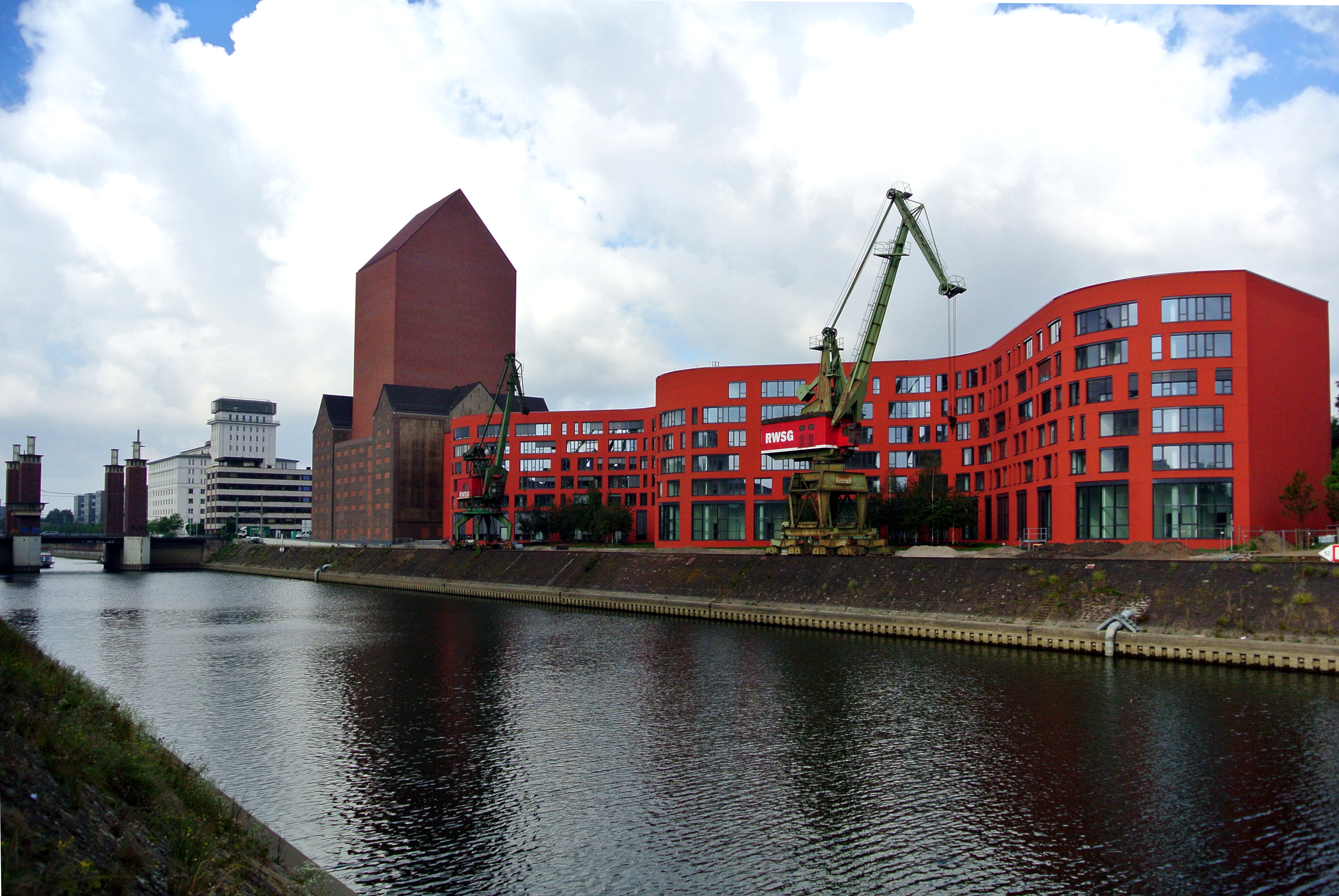 Duisburg inner harbor